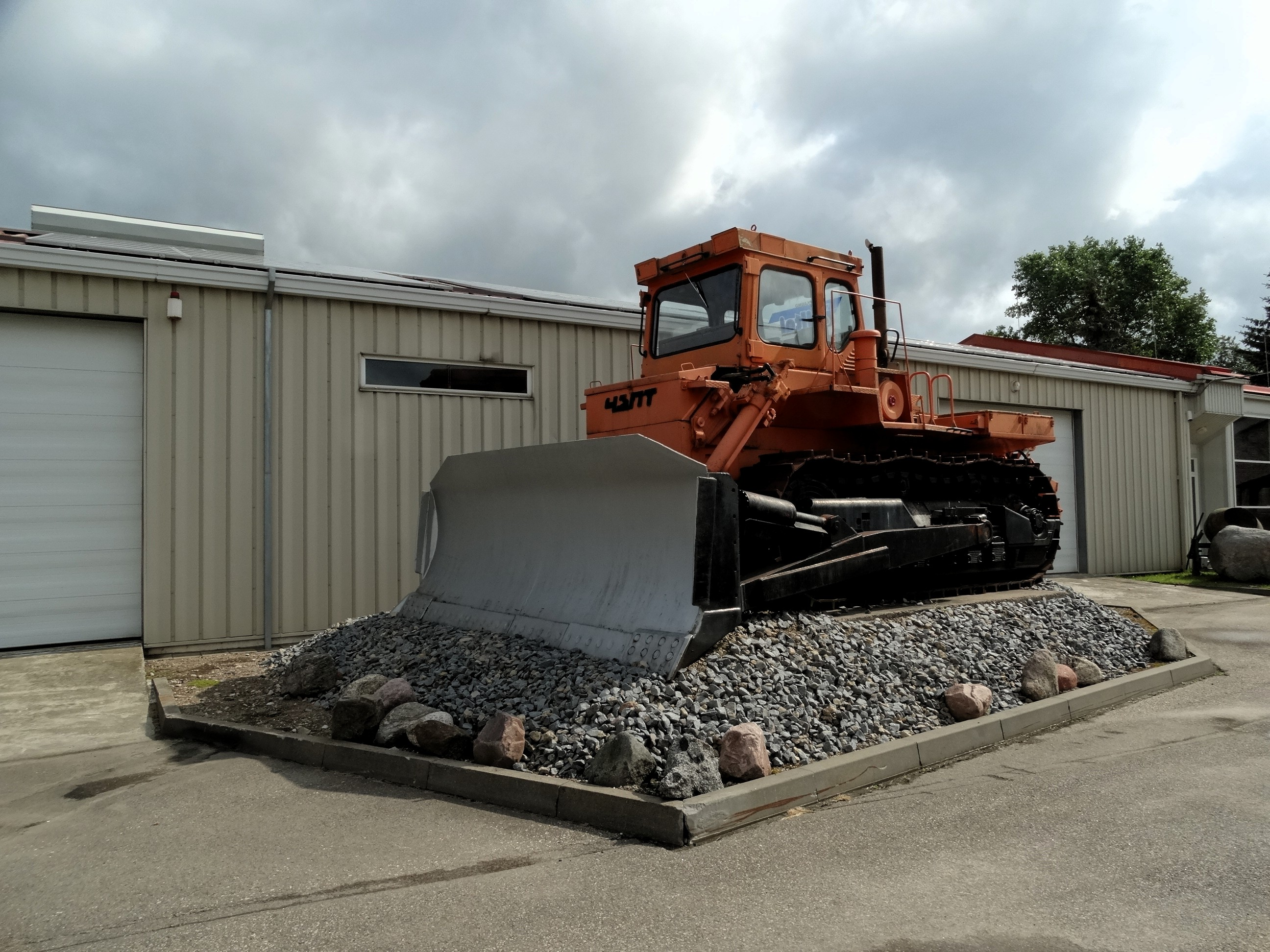 Vievis, museum of highways, Elektrėnai Municipality, Lithuania